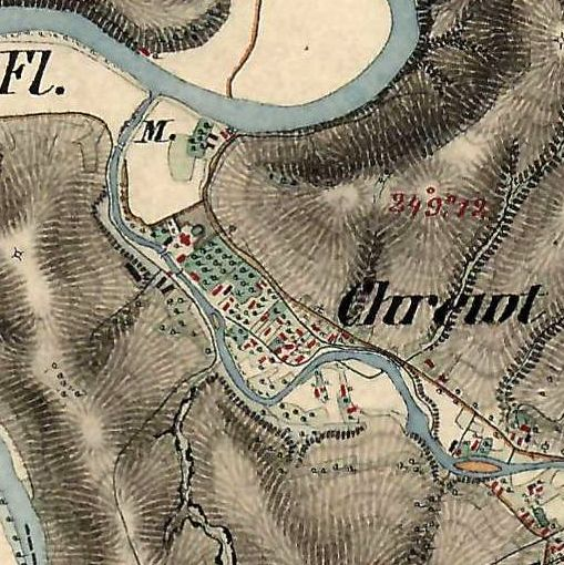 1869 in Chrewt